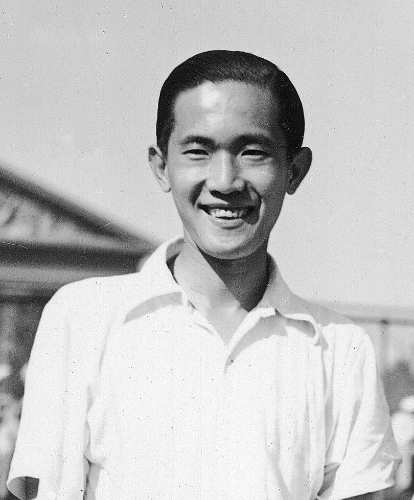 Chiese tennis player Kho Sin-Kie during a match between Poland and China in Warsaw.